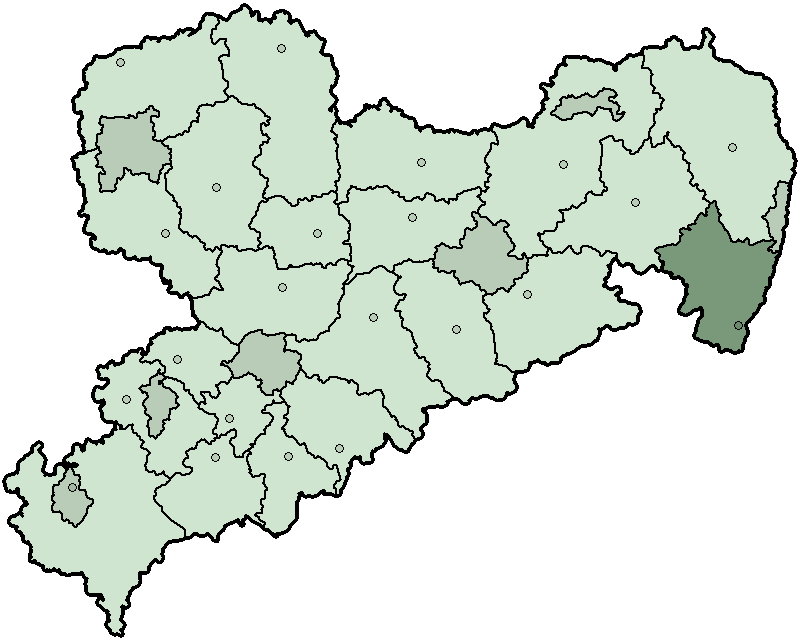 Map of the state Saxony in Germany before 2008, district Löbau-Zittau highlighted.